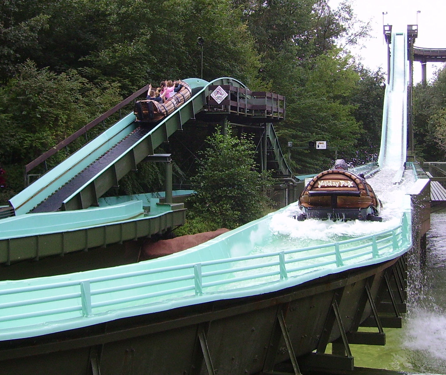 Holiday Park near Haßloch, Germany